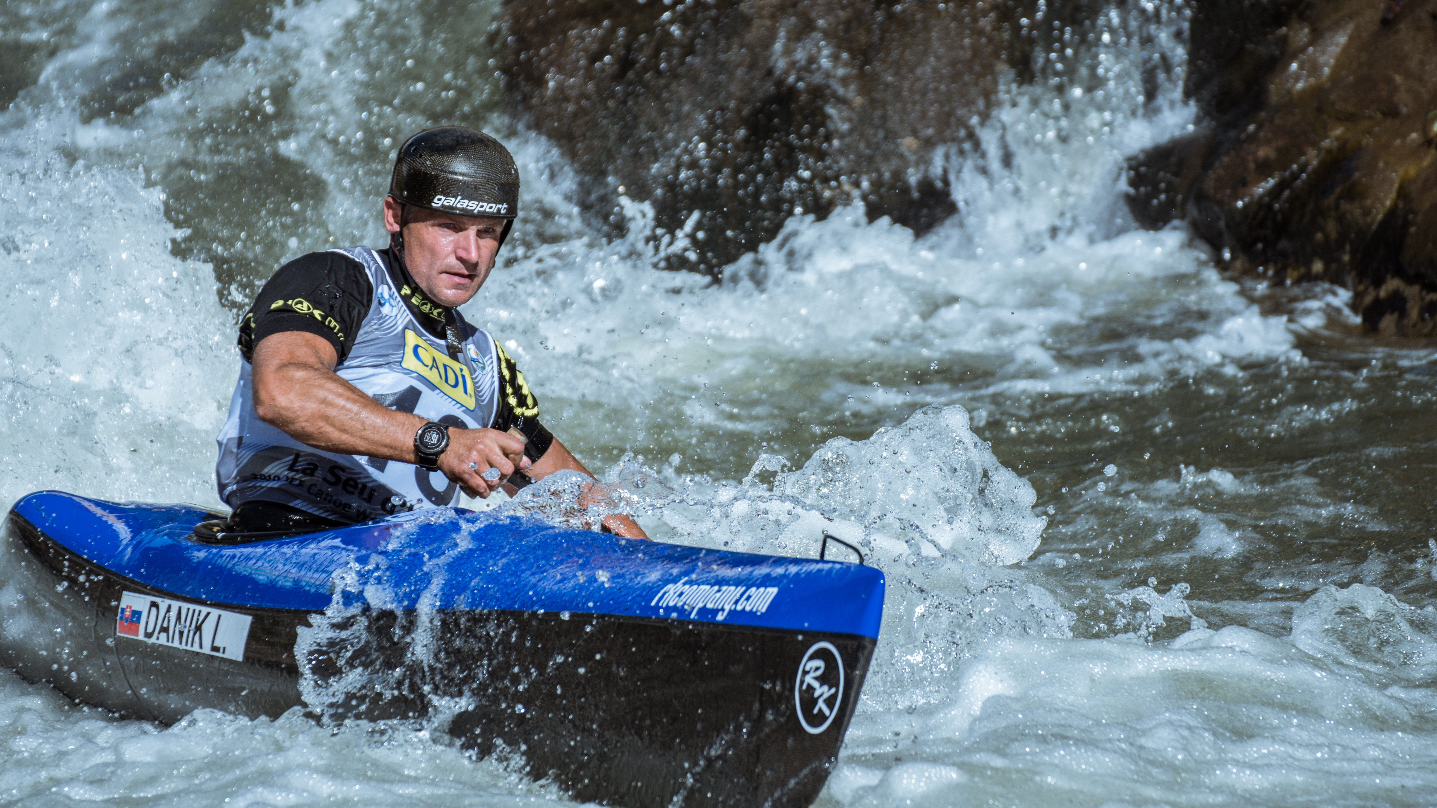 Davide Maccagnan during the 2019 Canoe Wildwater World Championships in La Seu d'Urgell, Spain.